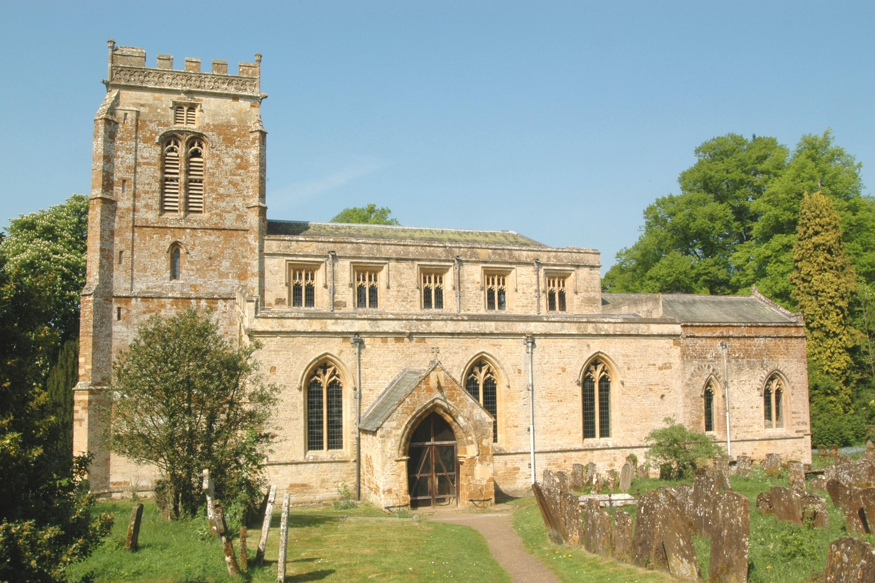 Church of England parish church of St Michael and All Angels, Great Tew, Oxfordshire, viewed from the south.